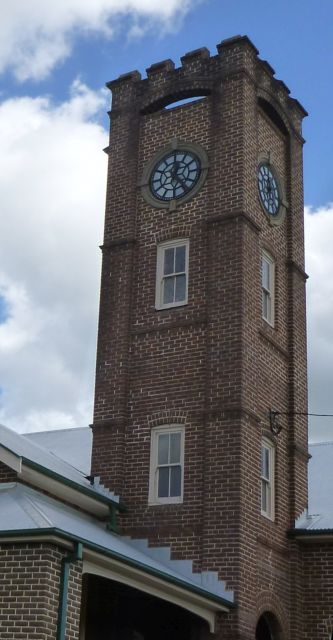 Wingham Memorial Town Hall: Detail of the Wingham Memorial Town Hall clock tower viewed from the corner of Farquhar and Queen Streets.